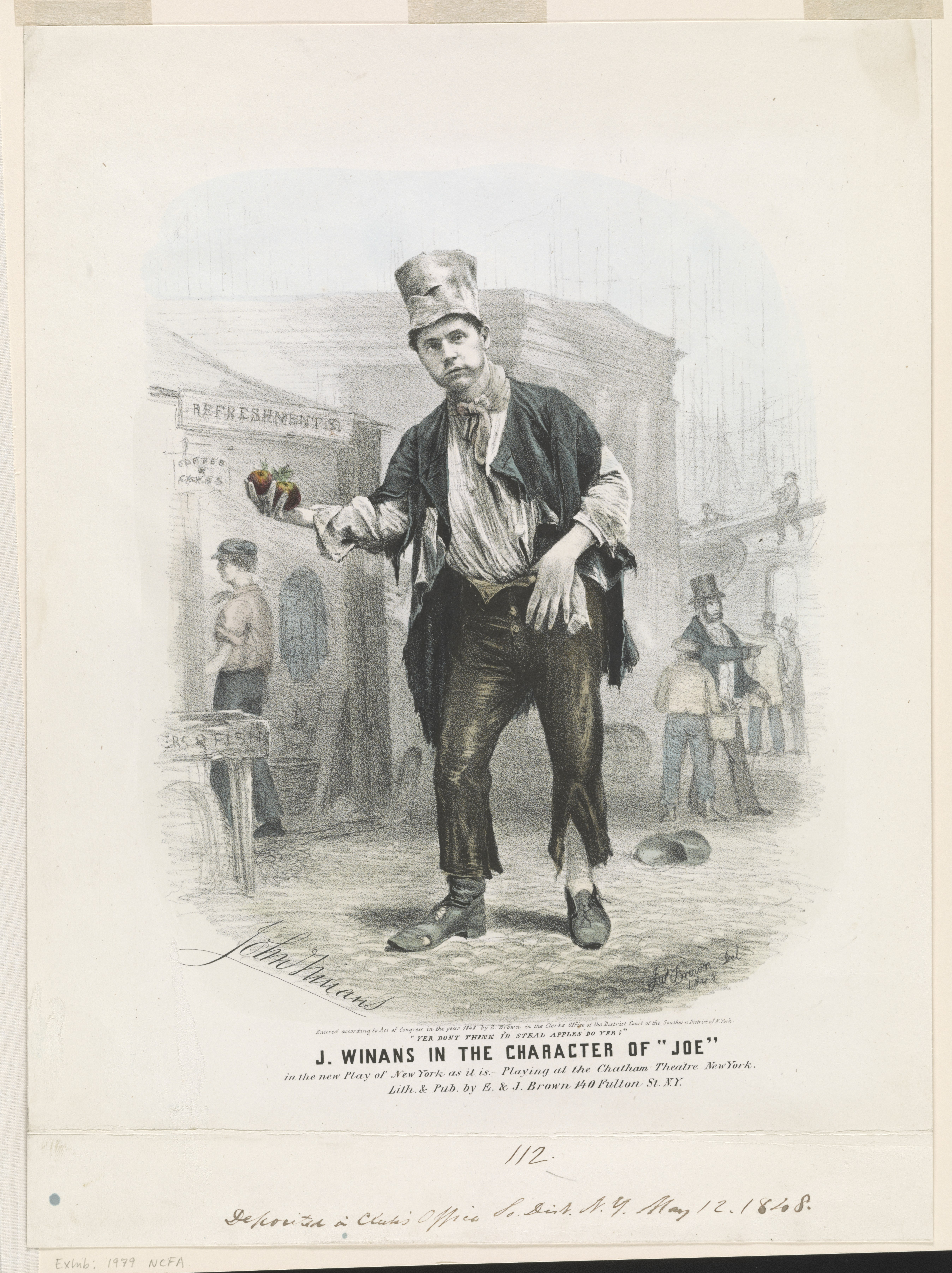 Title: J. Winans in the character of "Joe" in the new play of New York as it is. Playing at the Chatham Theatre, New York / Jas. Brown del. 1848. Abstract/medium: 1 print : lithograph, hand-colored ; 43.6 x 32.3 cm (sheet)